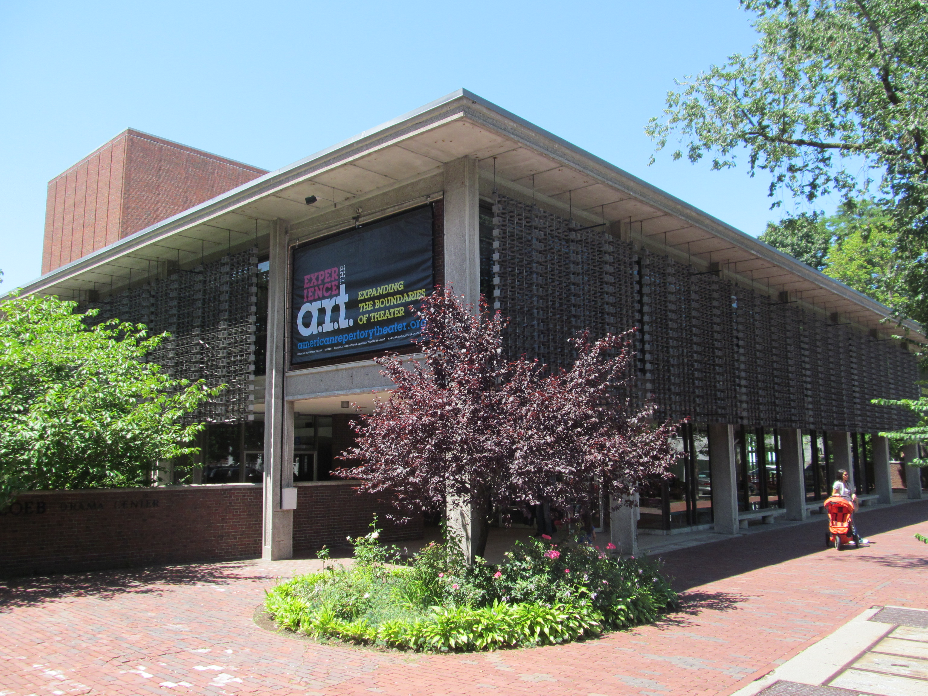 American Repertory Theater, Cambridge Massachusetts